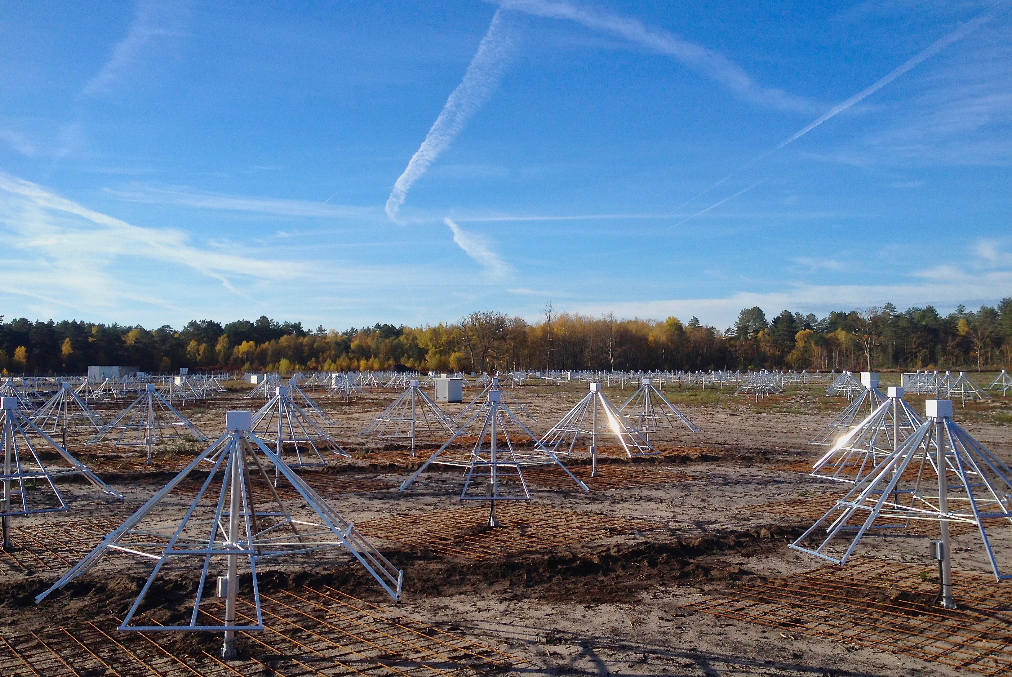 View of the antennas of the NenuFAR low-frequency radiotelescope, located at the Station de Radioastronomie in Nançay (France)